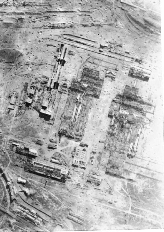 Vertical photographic-reconnaissance aerial photograph of the steelworks at Colombelles, east of Caen, France following a daylight attack on German fortified positions by aircraft of Bomber Command on the morning of 18 July 1944, in support of Operation GOODWOOD. The whole target area is studded with a dense concentration of craters and almost every building in the steelworks has been destroyed.